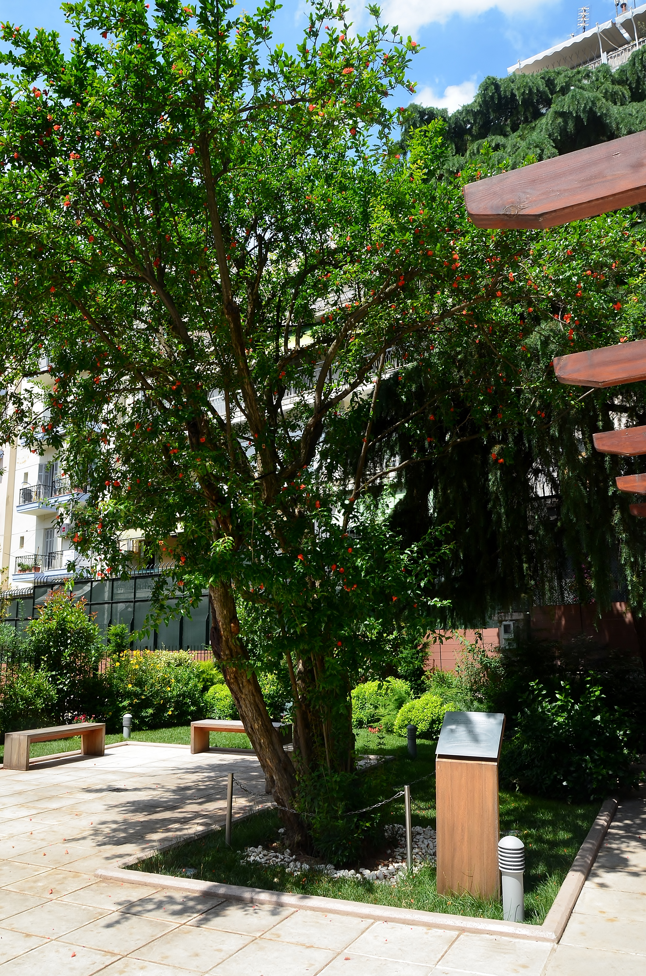 Memorial tree in the courtyard of Atatürk's House Museum in Thessaloniki